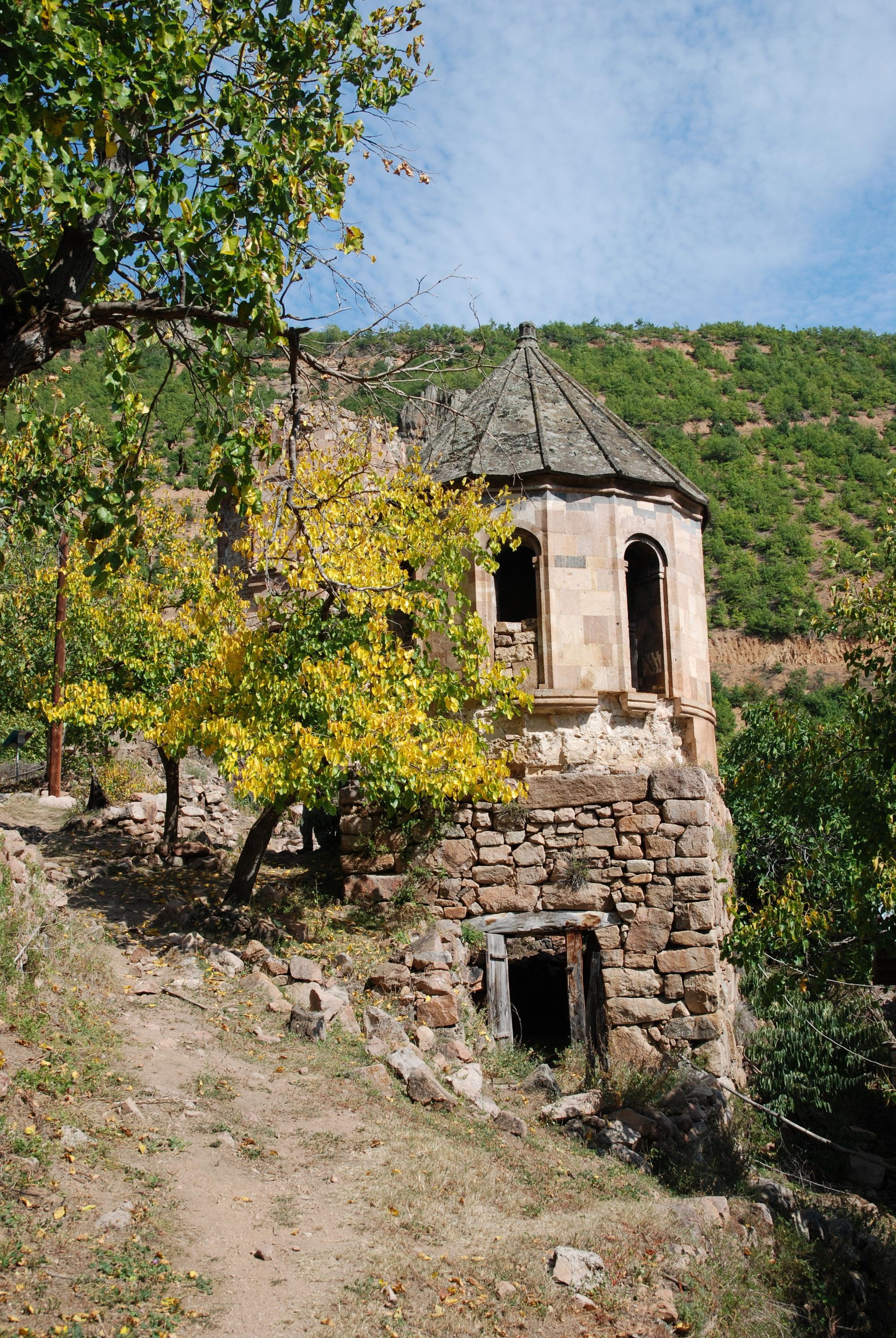 Porta, or Khandzta, Georgian monastery in Artvin province, belltower